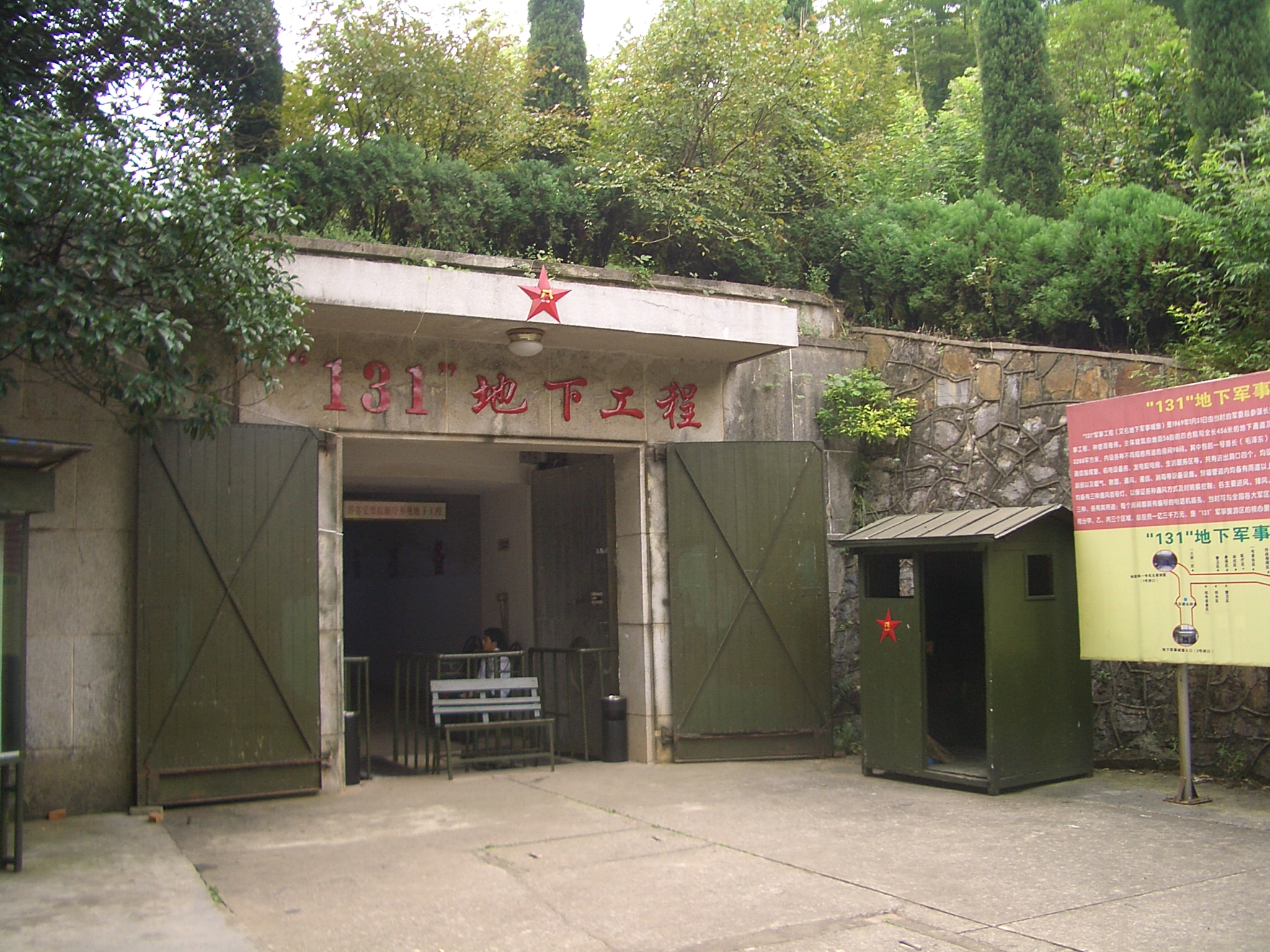 Project 131: The gates of the main tunnel site.